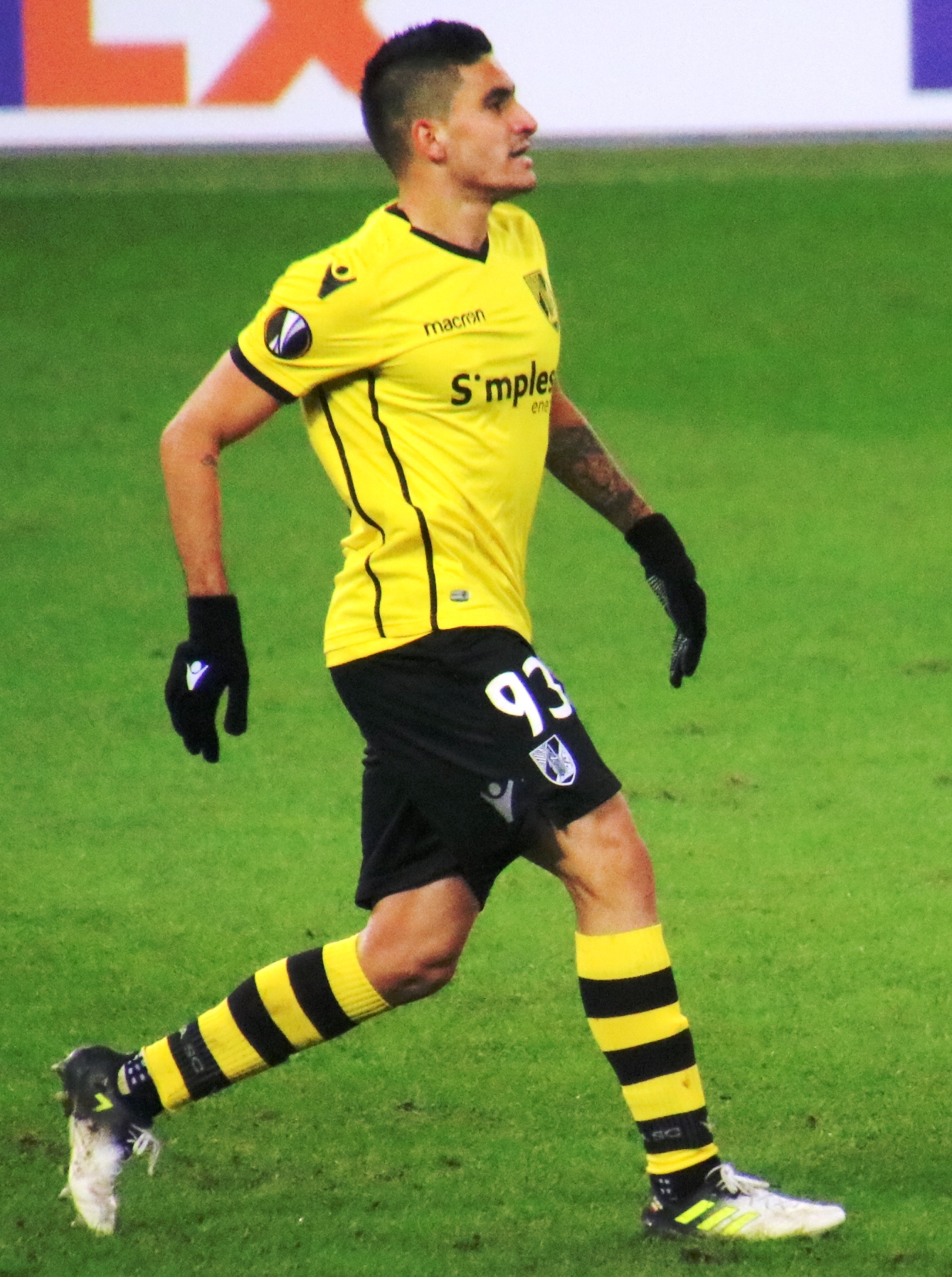 group stage round 5 Euroleague